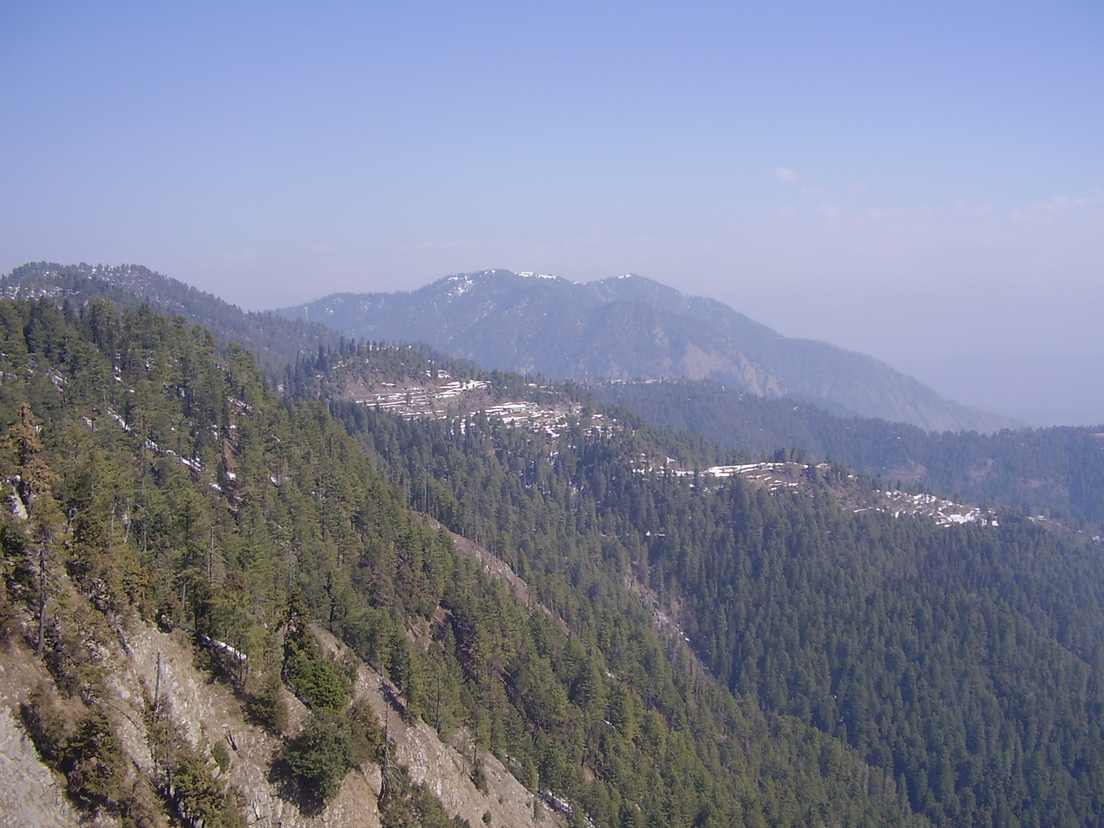 Mukeshpuri near Nathiagali from Road